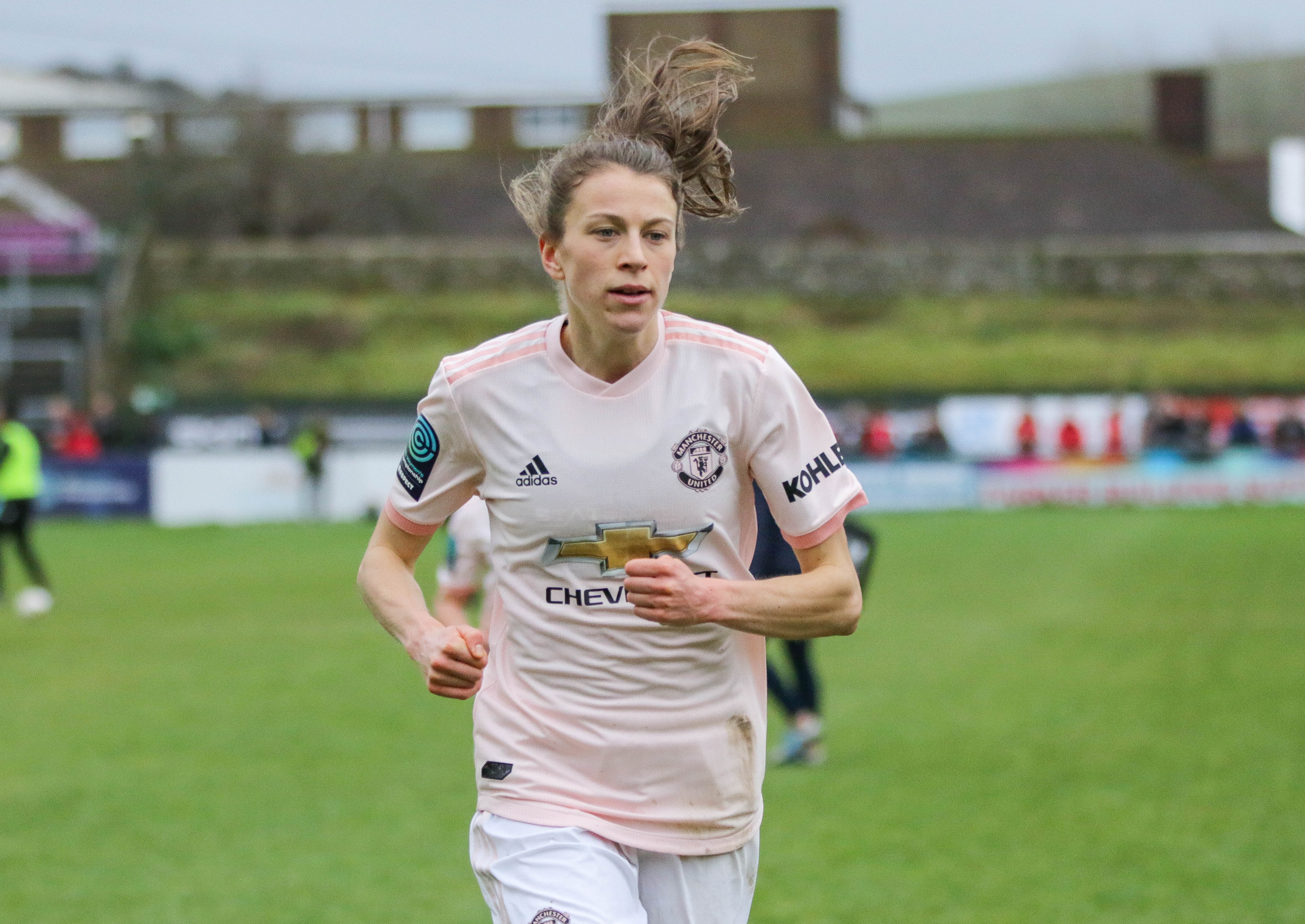 Manchester United footballer Lizzie Arnot